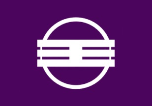 Flag of Oji Nara